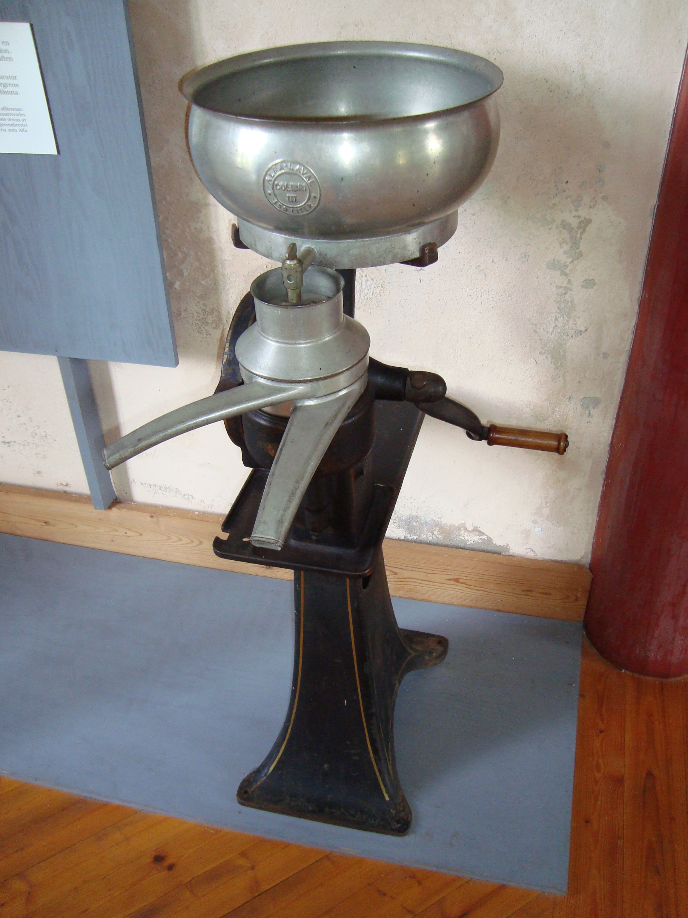 Cream separator at Kloster iron work museum, Hedemora municipality, Sweden.Whole milk is poured into the bowl at the top and it feeds into the machine. Turning the handle at right causes a centrifuge in the machine to spin and separate the milk into heavier cream and lighter skimmed milk, and each comes out of its respective spout.